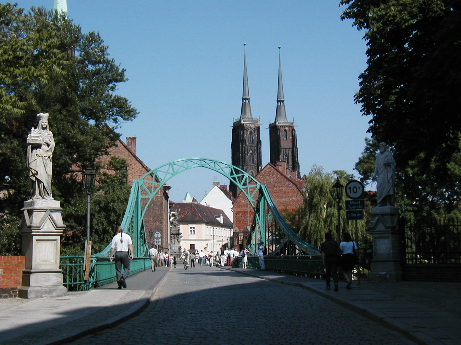 Sight of the river Odra and of the "dome church island" (?) in Wrocław, Poland